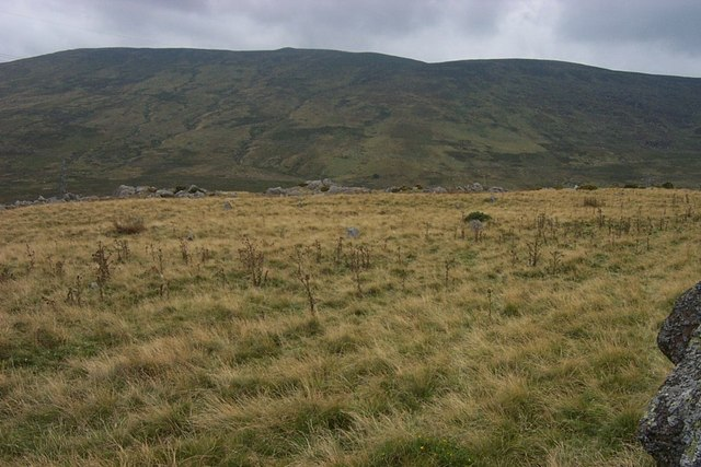 Stone Circle near Bwlch y Ddeufaen Car Park. This ancient stone circle can be found near to the Bwlch y Ddeufaen car park at grid reference SH 72465 71327.